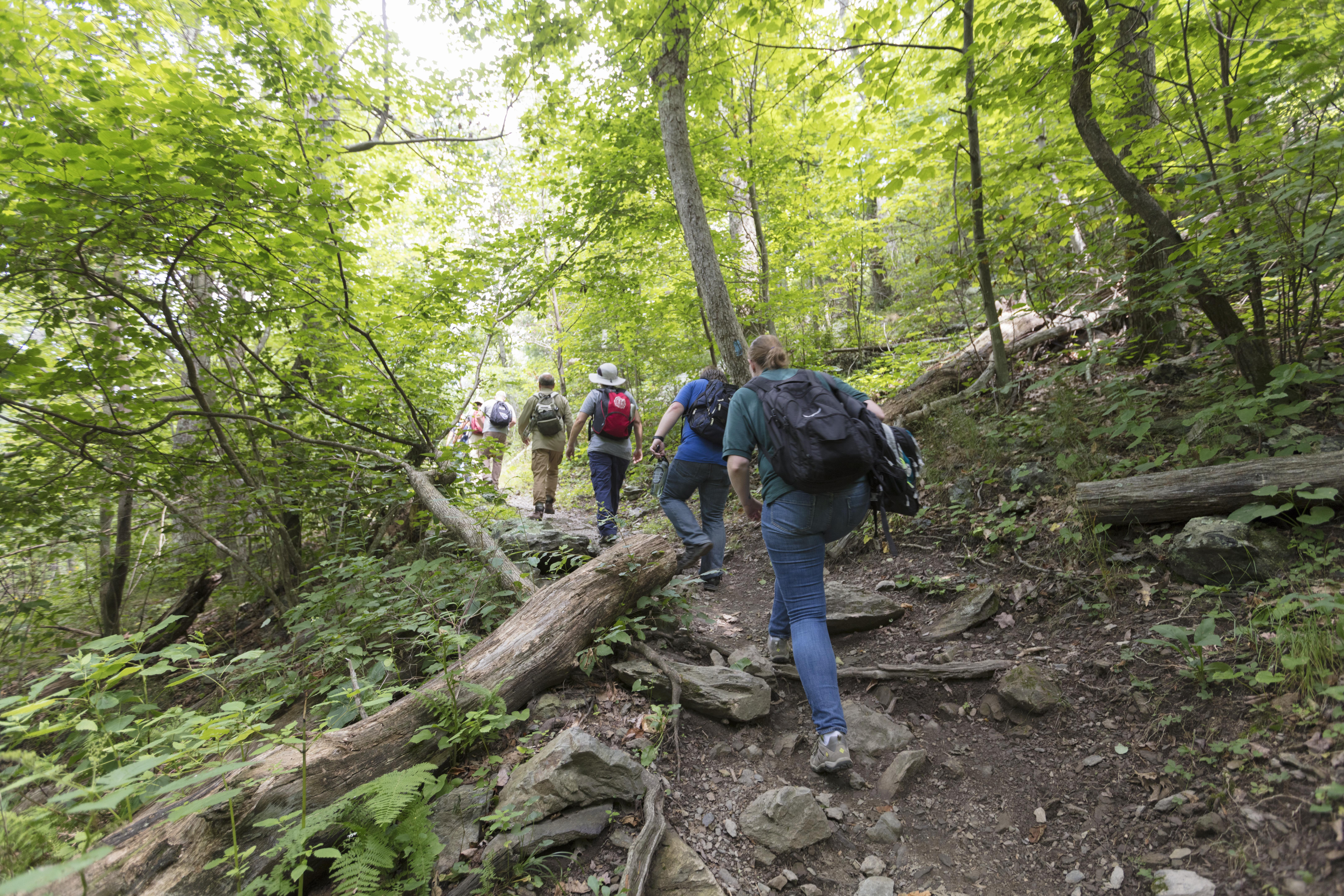 NPS | Mary O'Neill The Exploring Earth Science Teacher Workshop 2017 took place over August 2nd and 3rd. Participating teachers spent two days in Shenandoah National Park learning and participating in activities around the theme "Shenandoah Salamander: Climate Change Casualty or Survivor." This program is supported by a generous donation from the Shenandoah National Park Association and the Shenandoah National Park Trust.